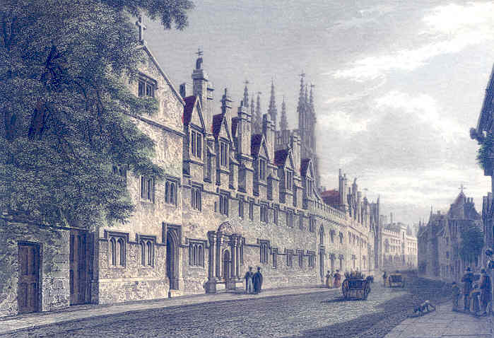 St Alban Hall, one of the academic halls of the University of Oxford, which was later subsumed by Merton College, Oxford From the book "Memorials of Oxford" by James Ingram DD. President of Trinity College. The engravings by John Le Keux from drawings by F. Mackenzie.